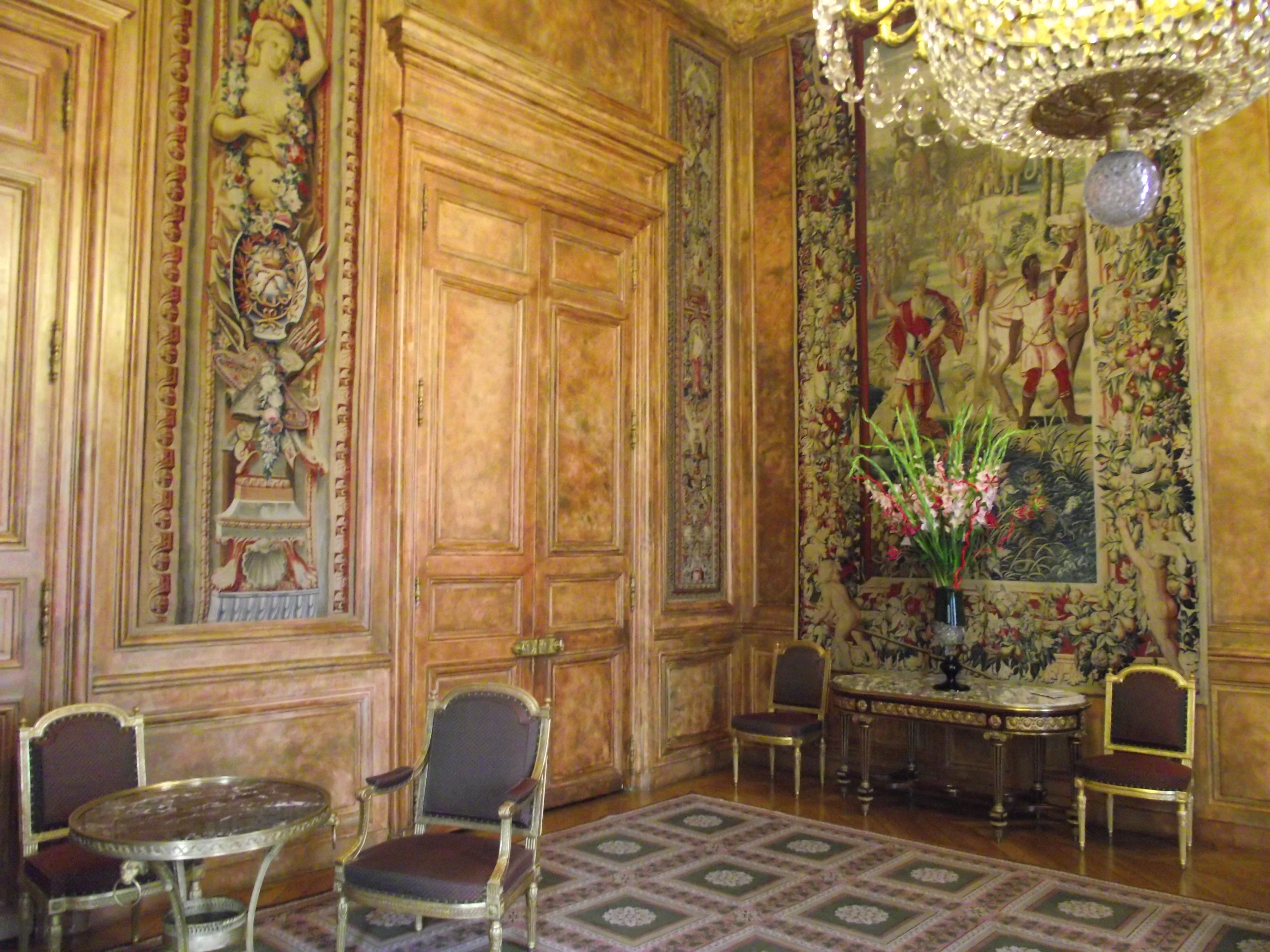 Elysée palace